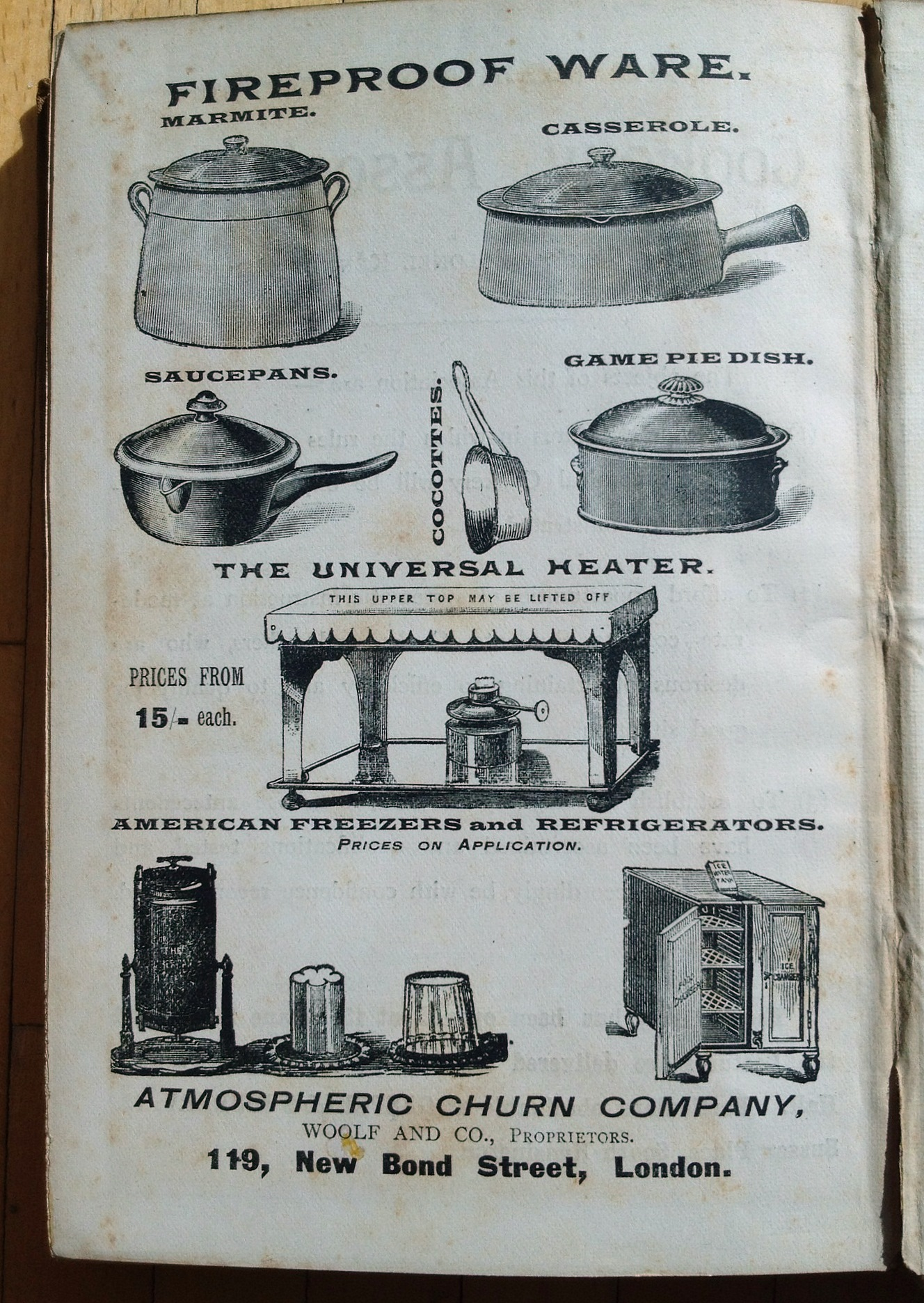 Advertisement for fireproof ware, heater and freezers. Found in Fifty Breakfasts, Colonel Kenney Herbert, Edward Arnold editor, London, 1894